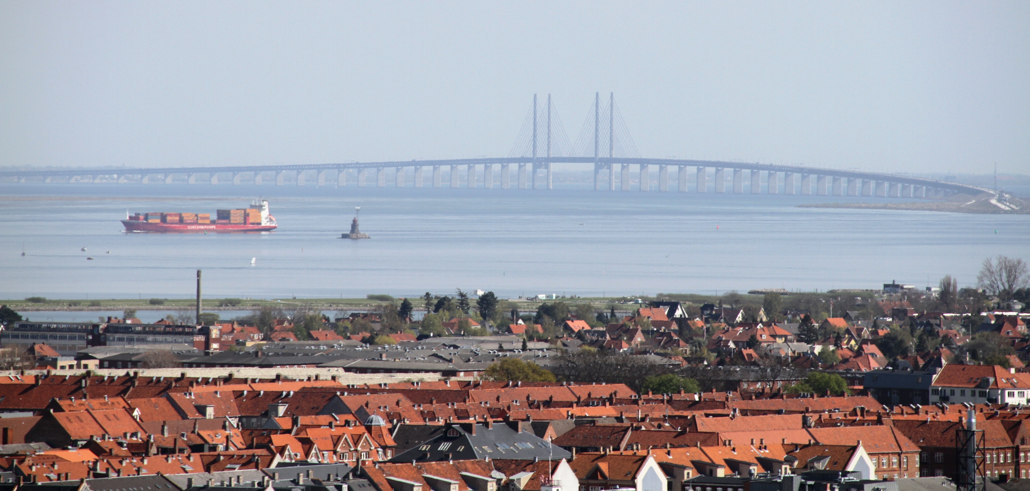 The northern part of Amager Island, and the Öresund bridge, Denmark